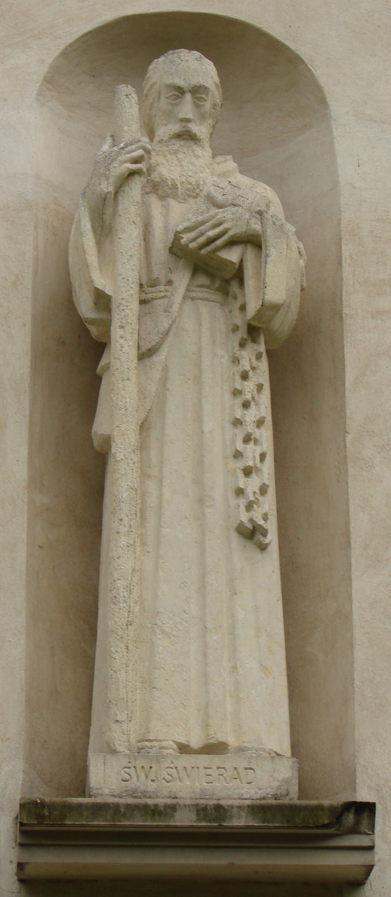 Sculpture of Andrzej Świerad from Saint Joseph's church in Muszyna, Poland